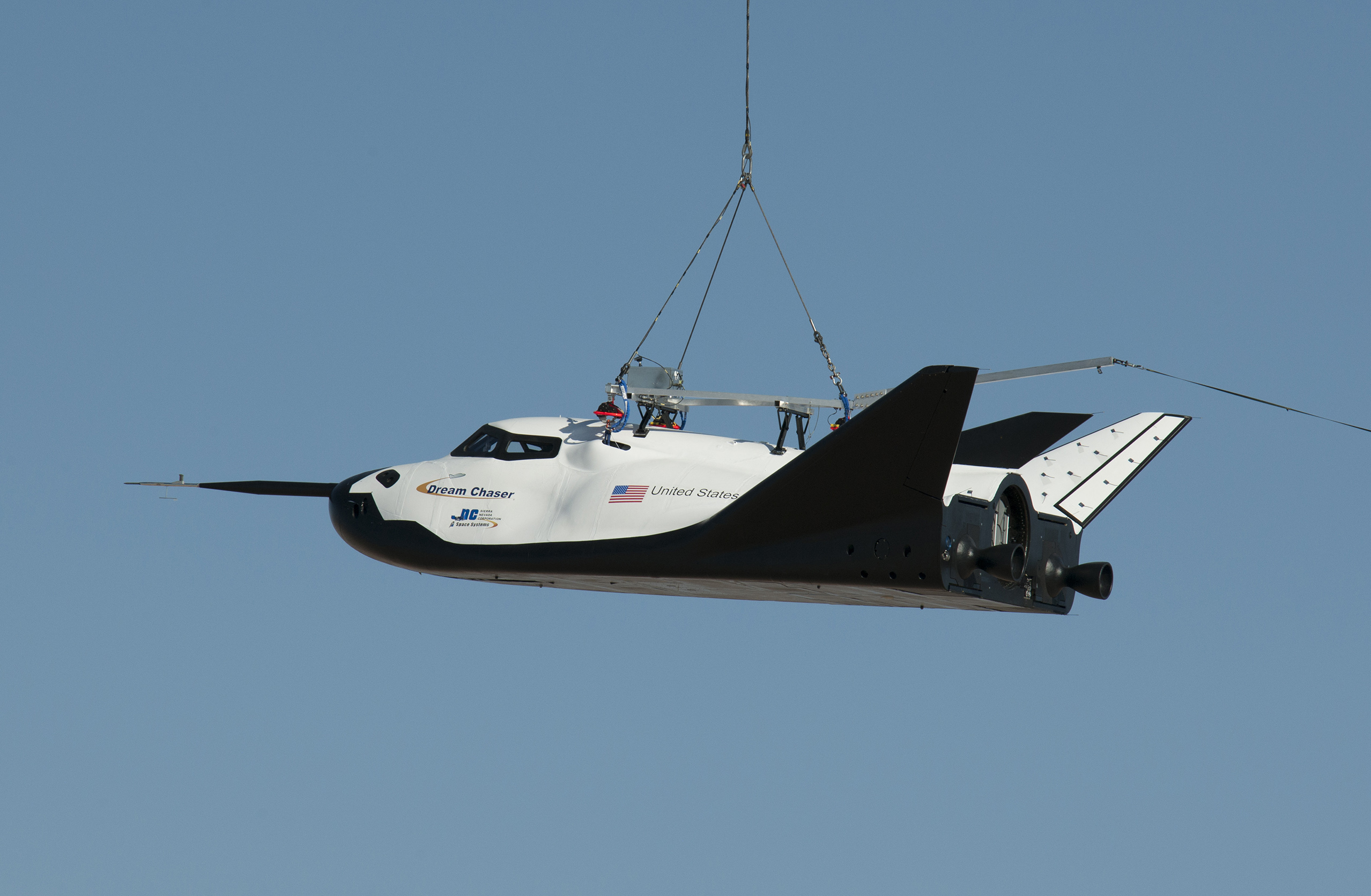 NASA partner Sierra Nevada Corporation (SNC) of Louisville, Colo., performs a captive-carry test of the Dream Chaser spacecraft Thursday at NASA's Dryden Flight Research Center in Edwards, Calif.